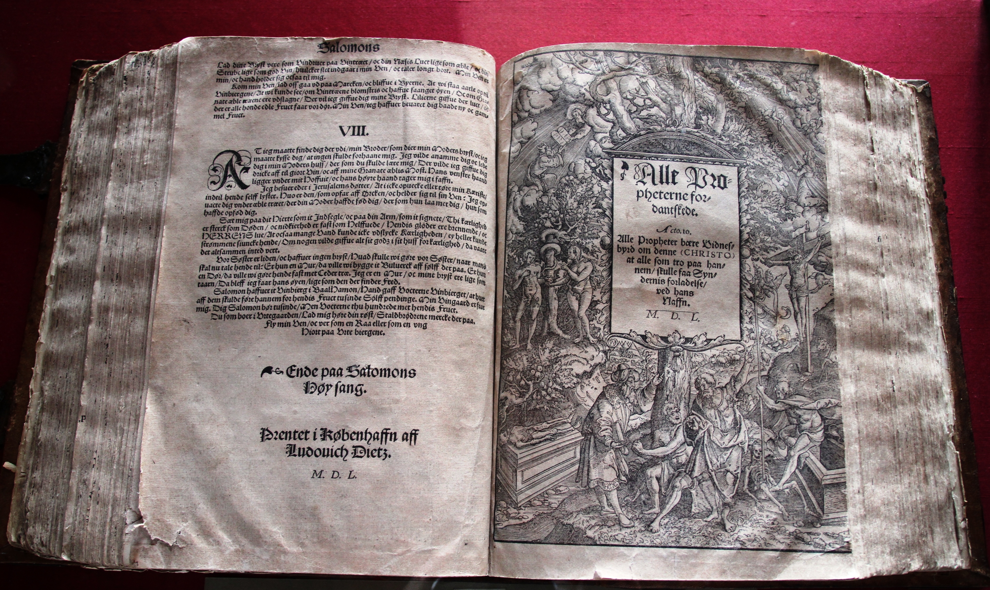 Christian III of Denmark let this bible edit be printed in danish shortly after the Reformation, in 1550. It was printed in Copenhagen by Ludwig Dietz. This specimen has belonged to the sea hero Peder Skram. Exhibit at Frederiksborg Slot (Castle), Denmark.